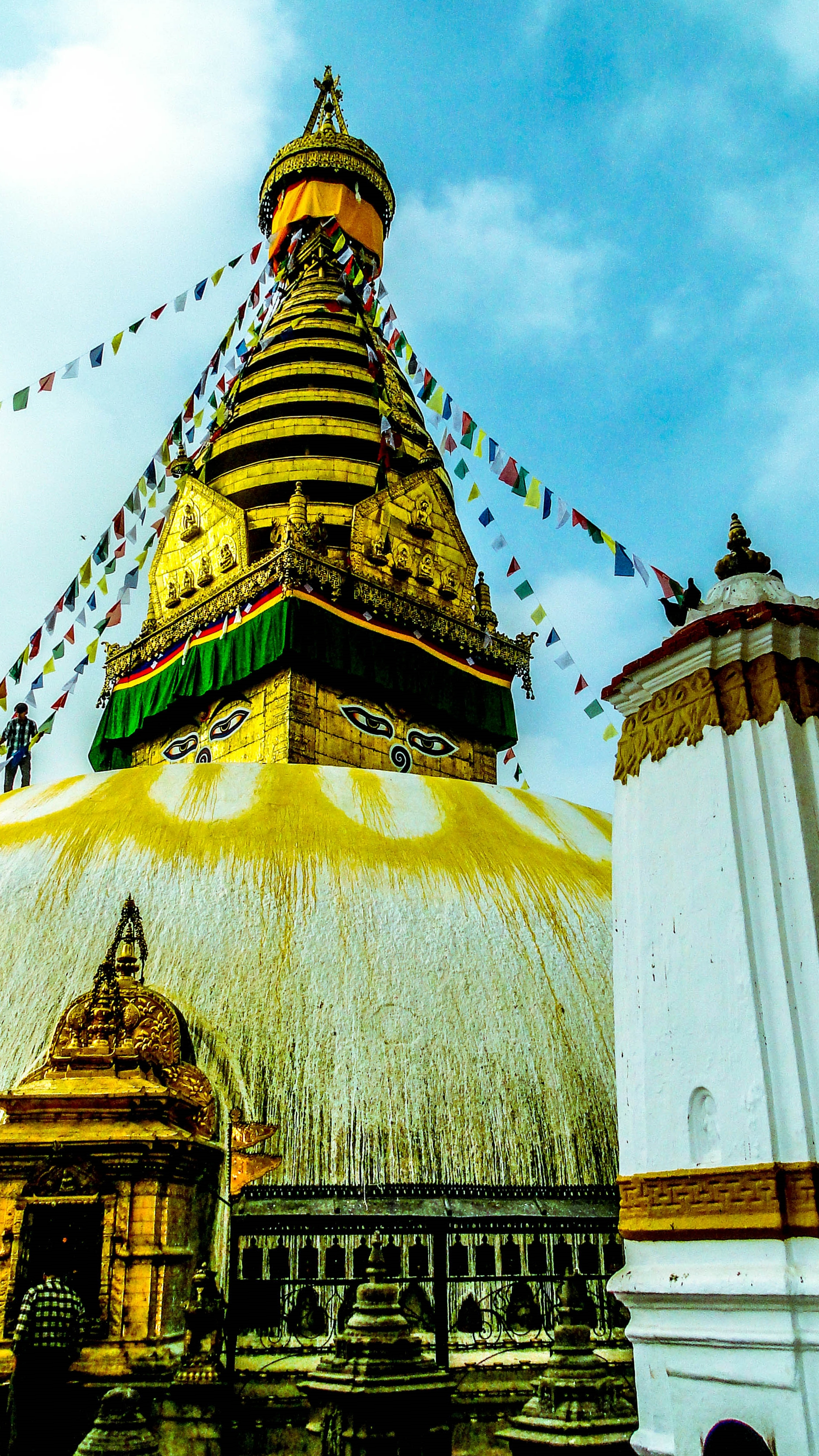 2014 shot of Swayambhunath Stupa.